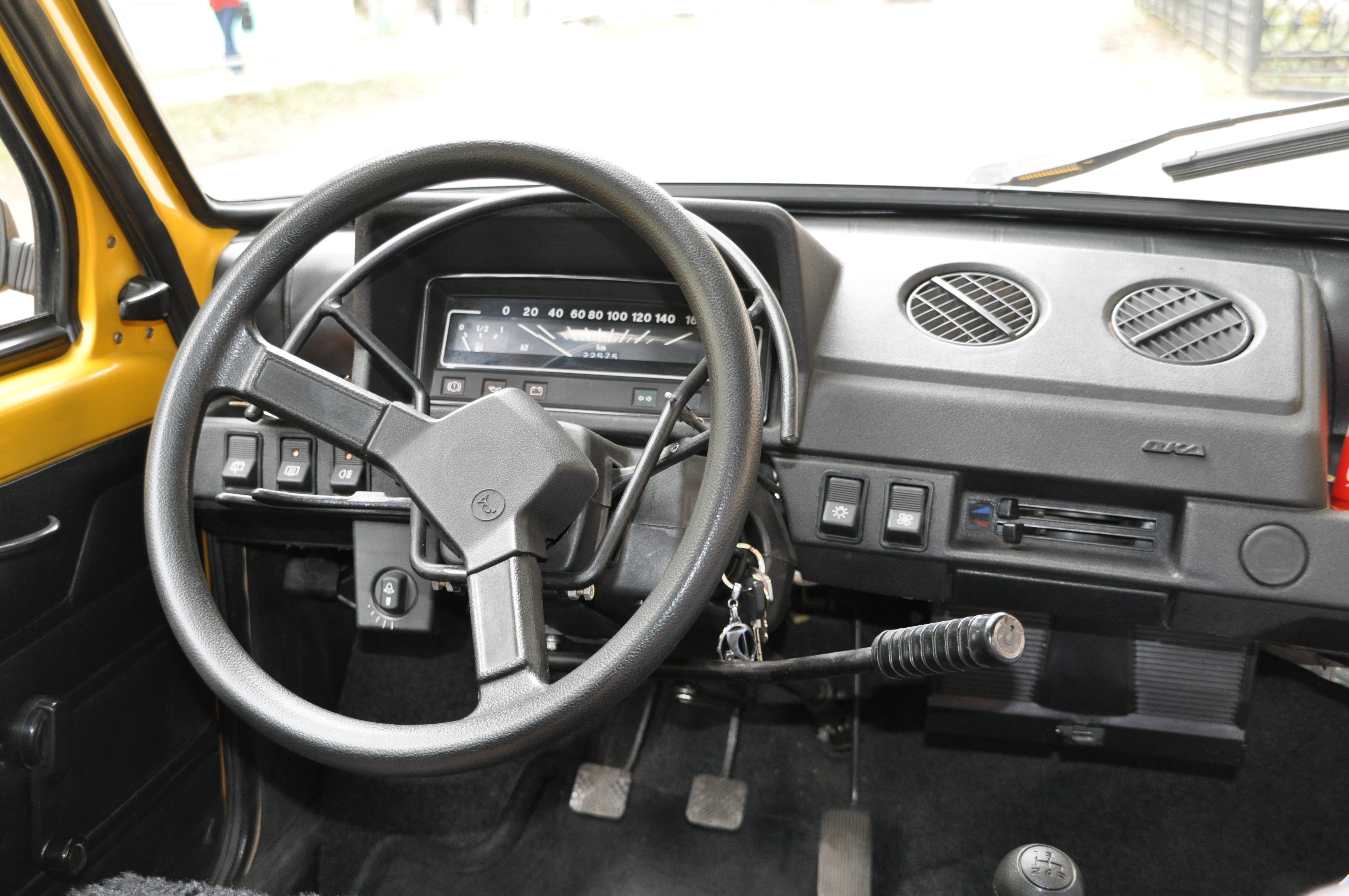 Oka micro car with factory-installed manual throttle/brake/clutch controls (those levers and frames behind the steering wheel) for people with leg disability.